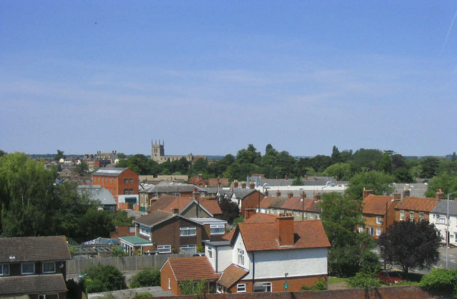 Newport Pagnell skyline. Looking north-west from the 3rd floor of Harben House